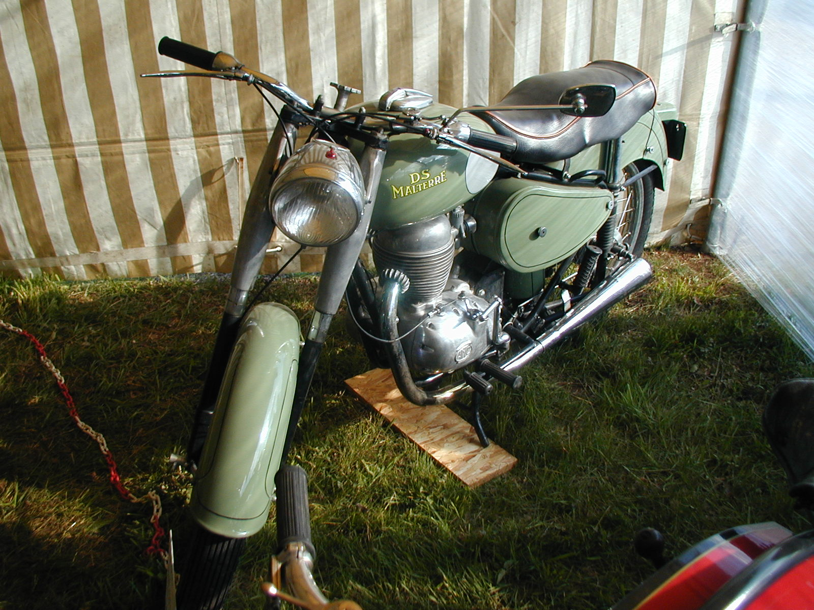 DS-Malterre 175 M9 Sport French motorcycle -1954 Picture : Gérard Delafond